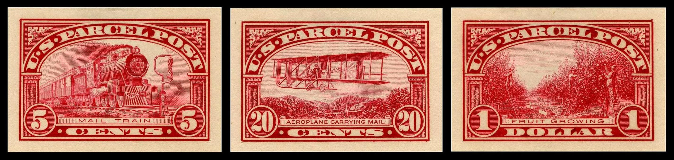 Image of selected Parcel Post fie proofs, 1915 issue